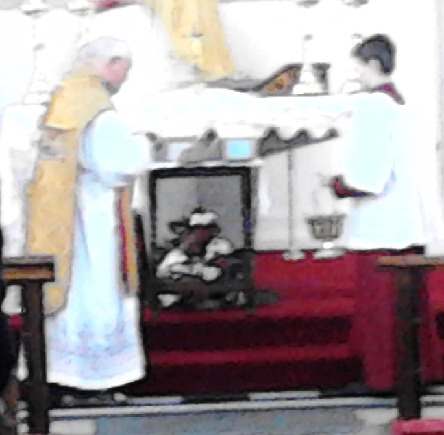 Blessing of the Candles at Candlemas at Presentation Day (note the Gold Vestment)